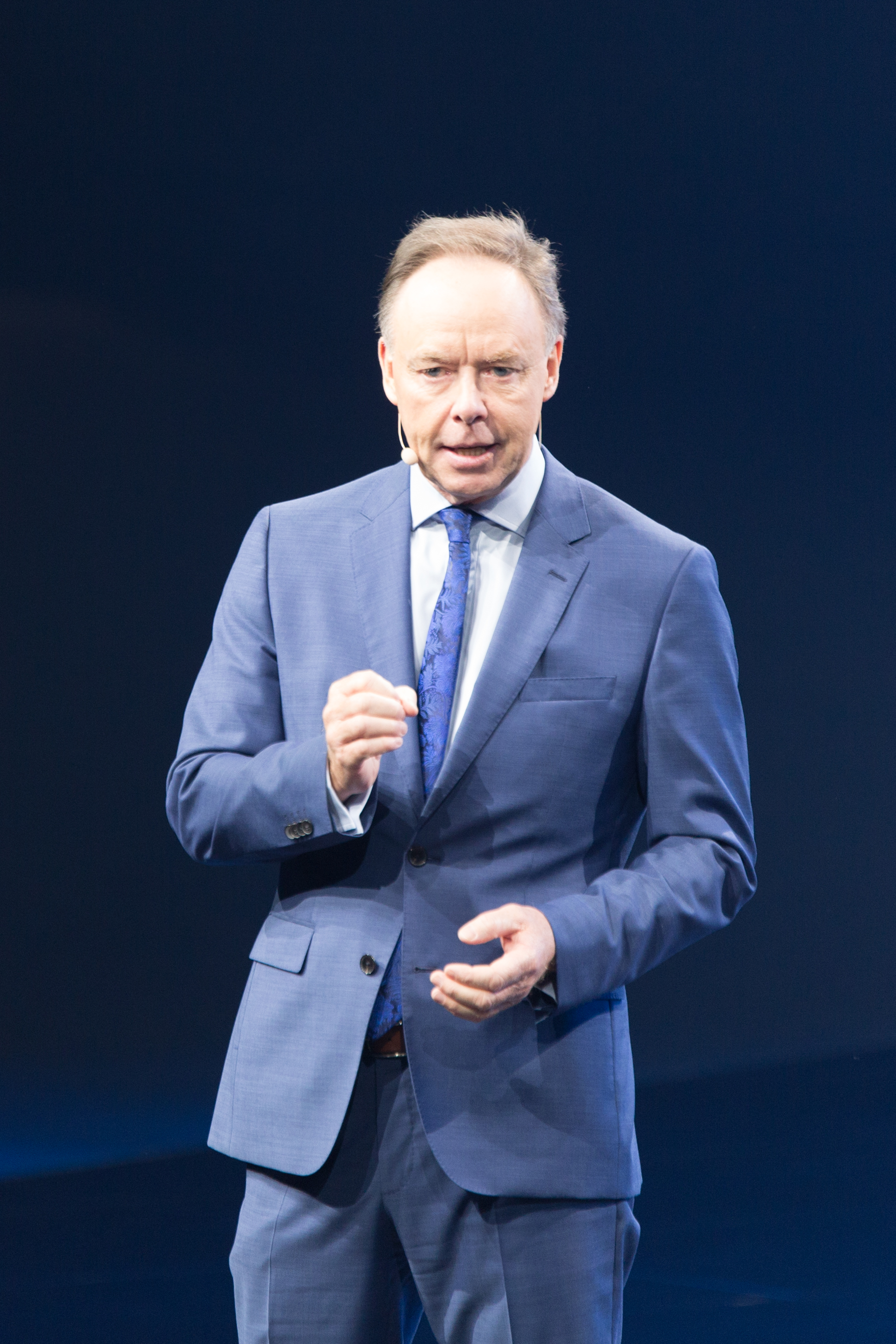 Ian Robertson at the BMW press conference, IAA 2017